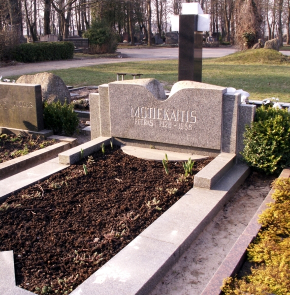 Grave of engineer, aviamodelist Petras Motiekaitis, Donelaičio cemetery, Šiauliai, Lithuania